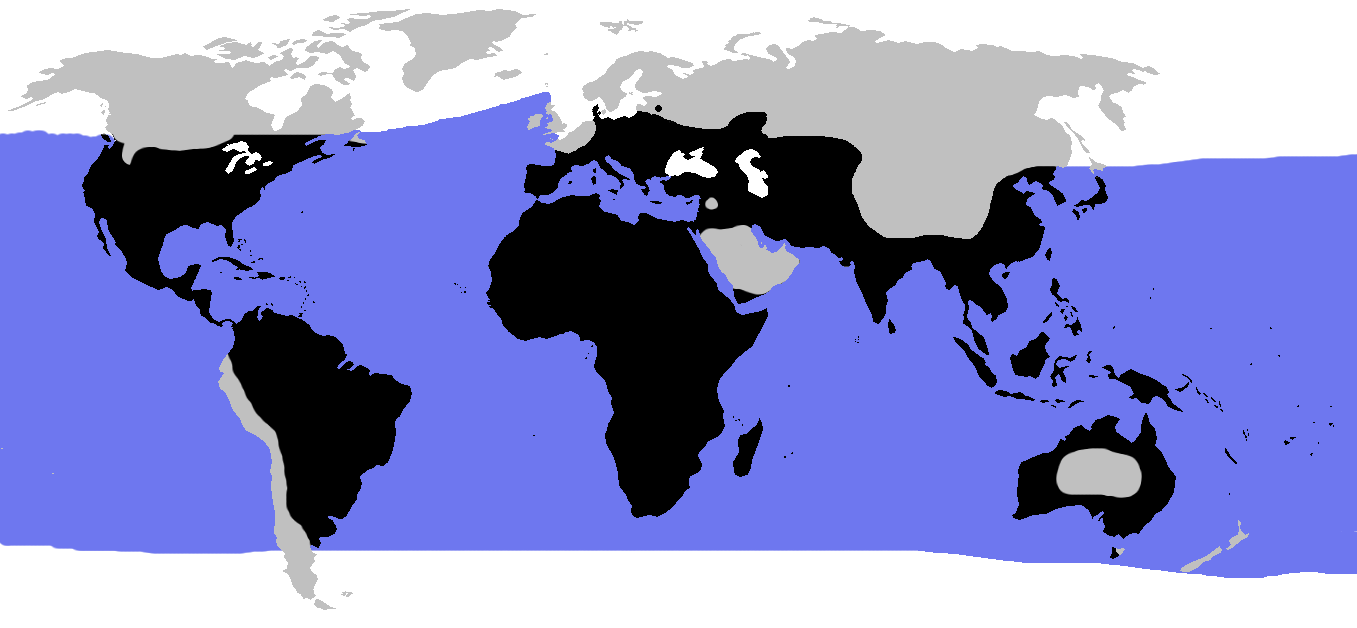 World distribution of turtles (Order Testudines), after data from Cogger, H.G & Zweifel, R.G. (1998). "Reptiles & Amphibians". ISBN 0121785602. Black is land with turtles, blue sea with turtles. Gray is land without, white water without.